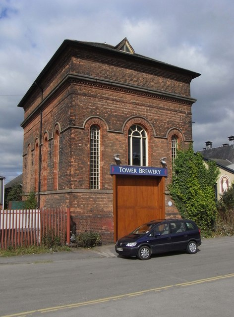 Tower Brewery, Burton-on-Trent, near to Winshill, Staffordshire, Great Britain. A modern micro-brewery in the former water tower of the Walsitch Maltings that were used by the second biggest brewer in Burton